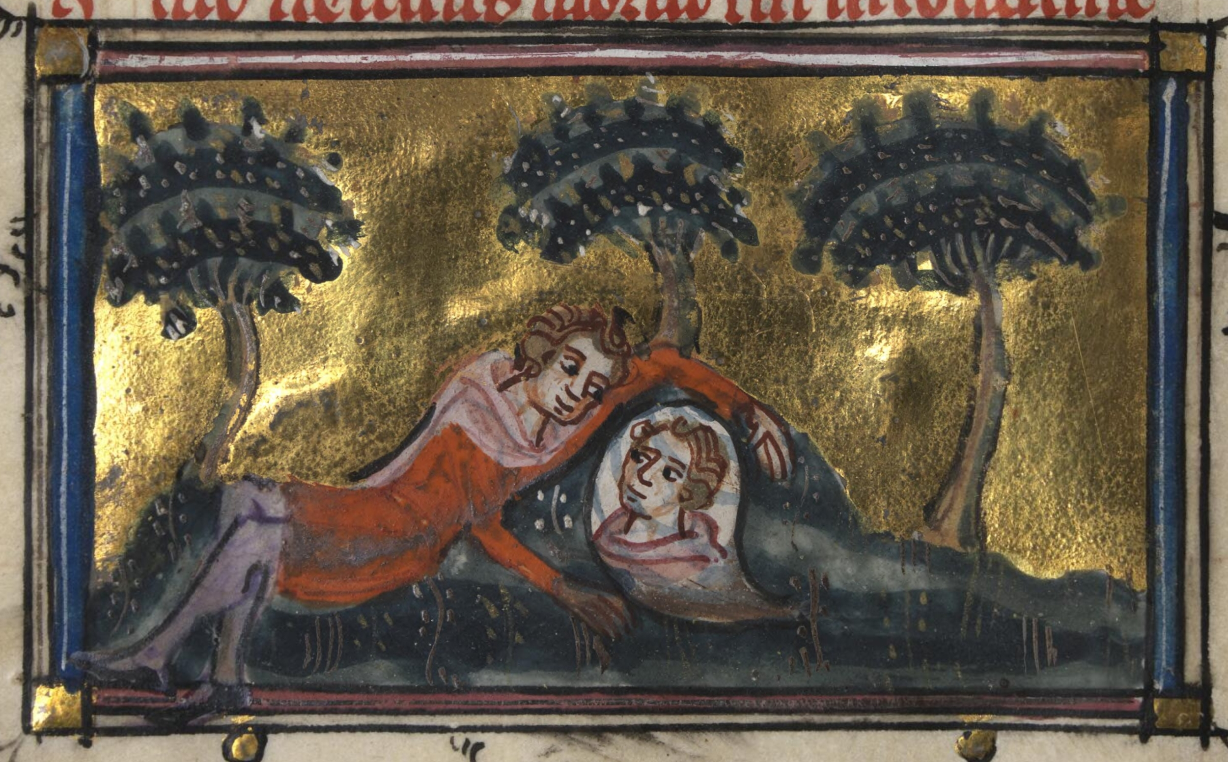 The Roman de la Rose manuscript contains one of the most popular romantic French poems of its time